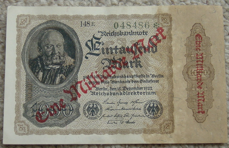 This One Thousand Mark note dated 15th December 1922 was overstamped in 1923 with red "eine Milliarde Mark" or "One Billion Marks", because the currency was depreciating so fast.